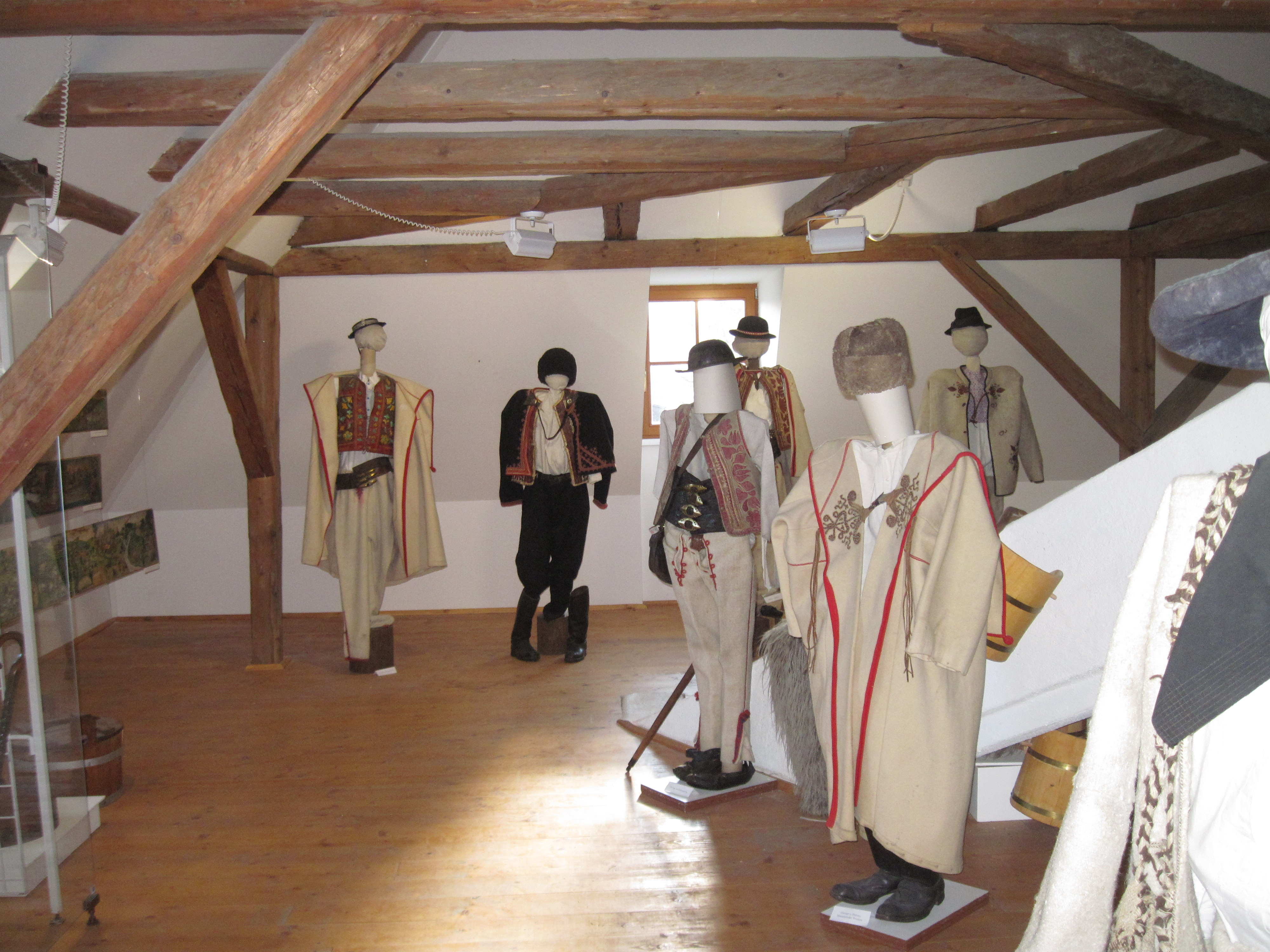 Figurines in the garment of shepherds of the most important cultural and historical regions of Slovakia.